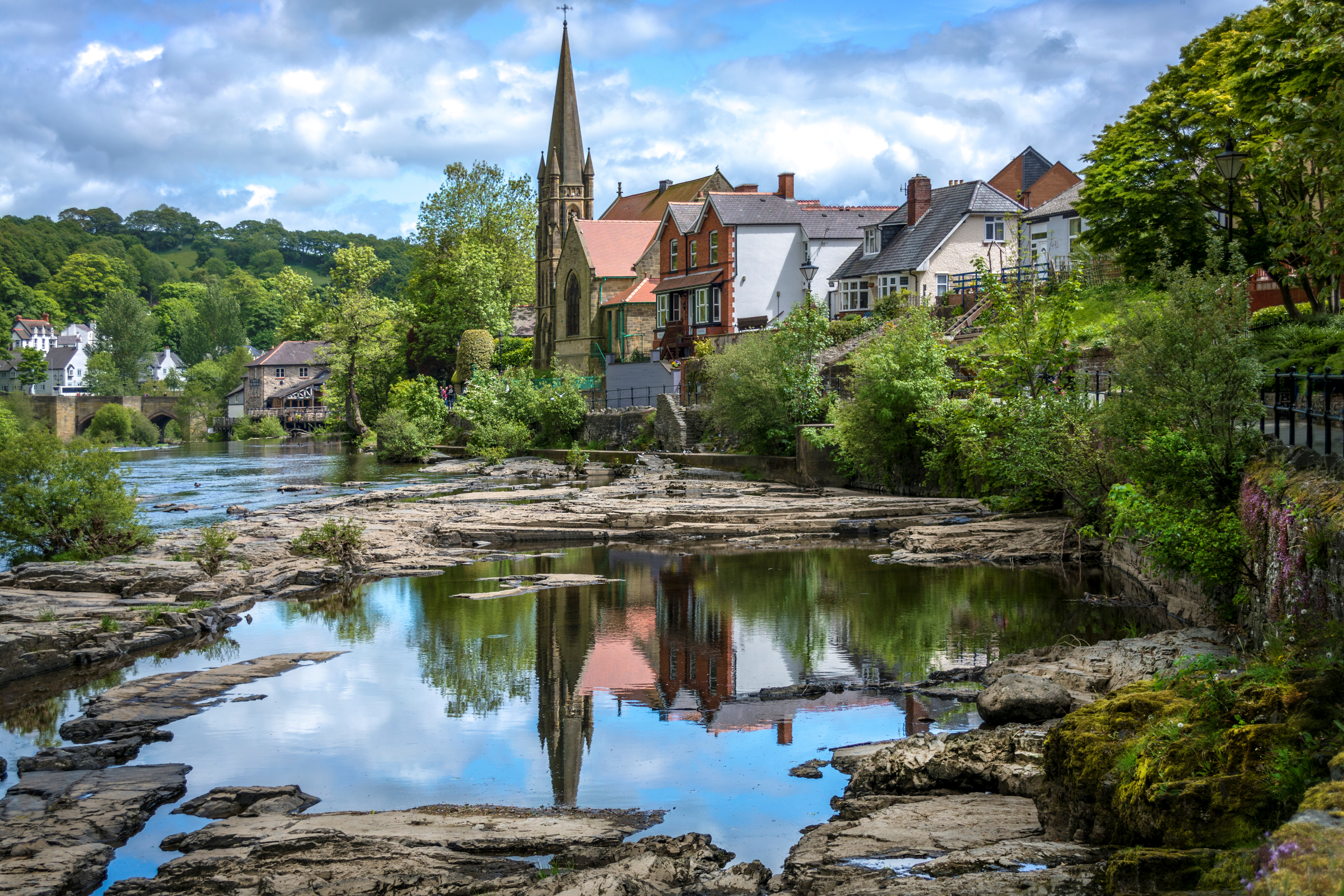 Llangollen Methodist Church Wikidata has entry Q29504001 with data related to this item.